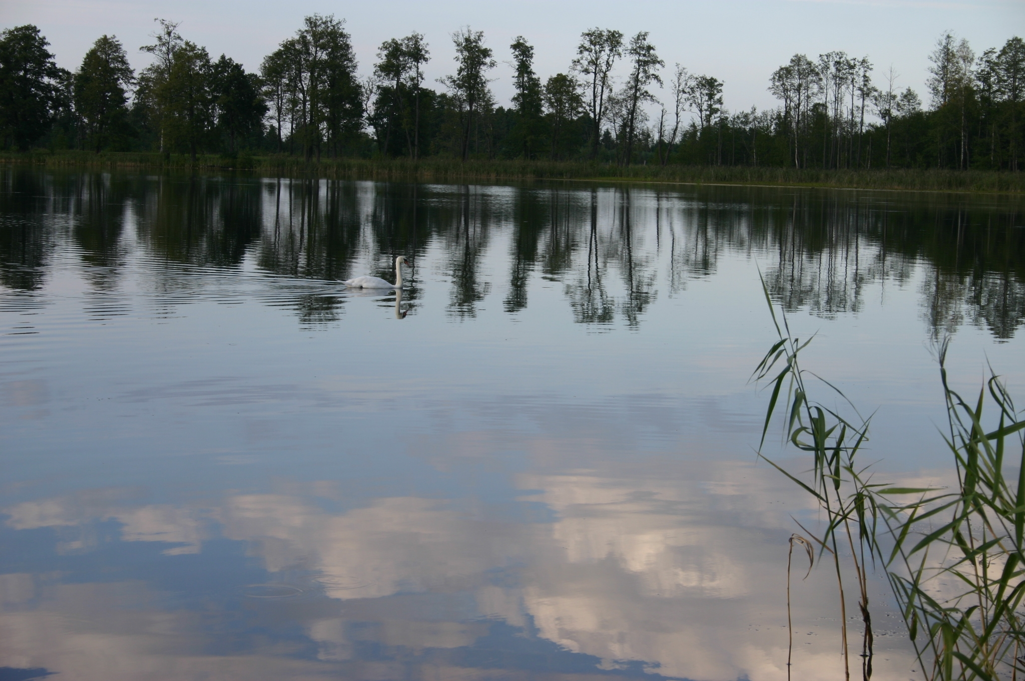 Północny kraniec jeziora Pogubie Małe w pobliżu wsi Pogobie Średnie (gmina Pisz, powiat piski, województwo warmińsko-mazurskie)